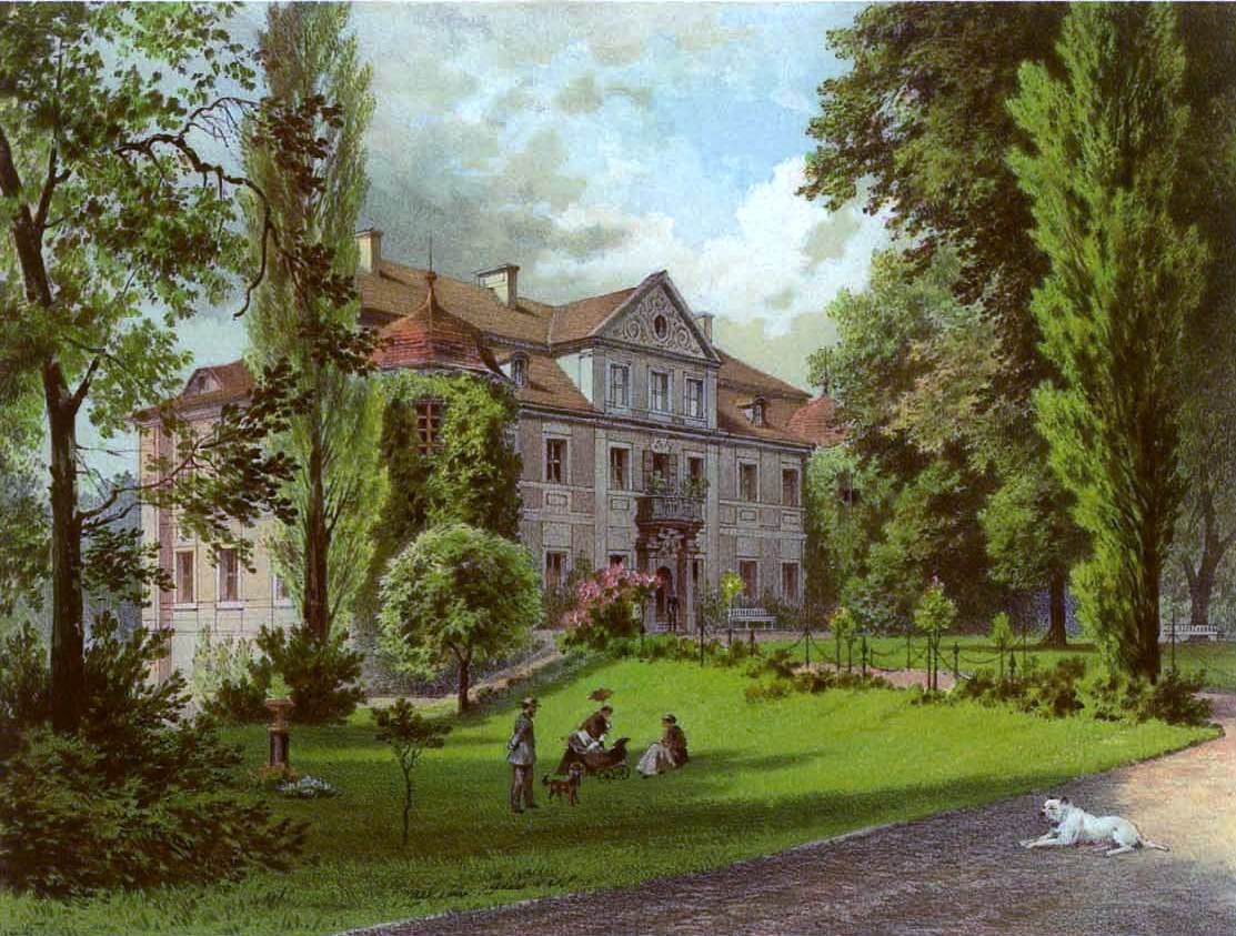 Palace in Gawronki